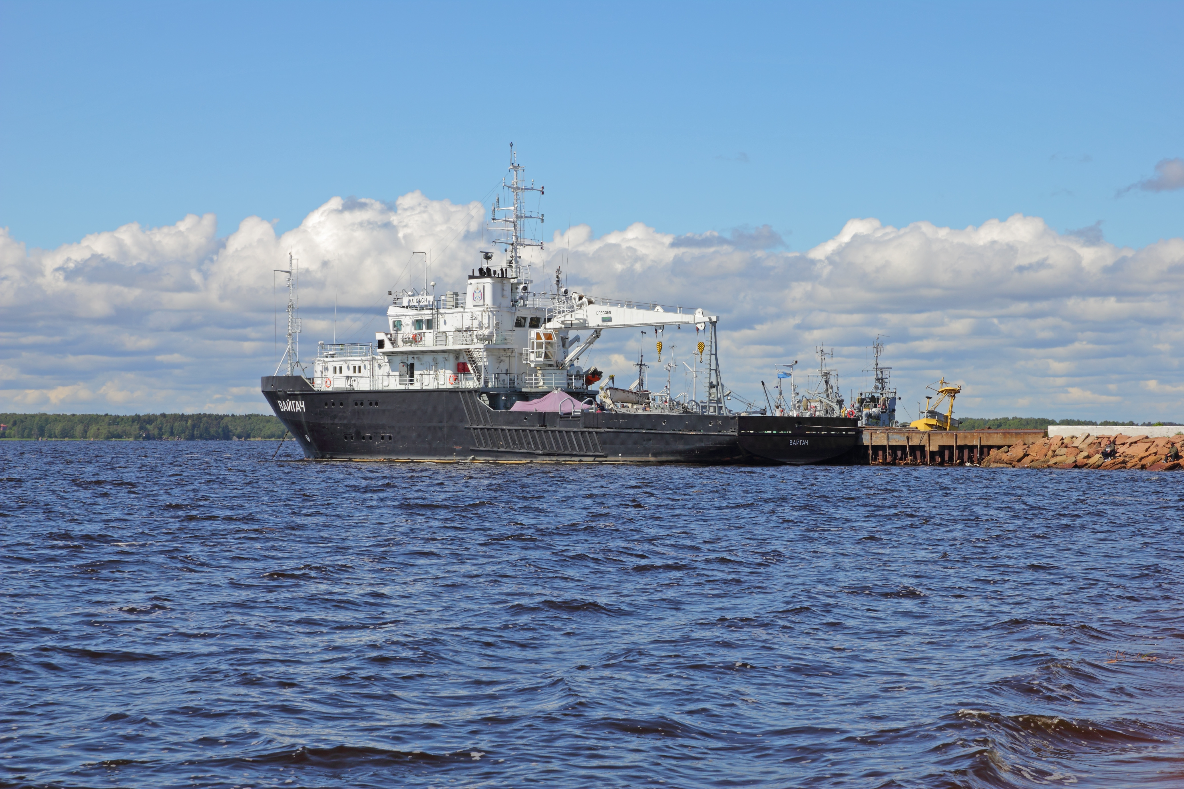 Vyborg (former Viipuri), Leningrad Oblast, Russia. A ship in Vyborg Bay.